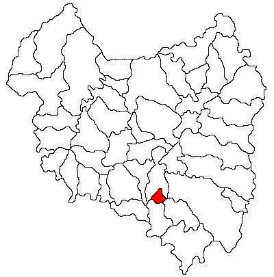 Locator map of Valea Mare commune, Covasna County, Romania